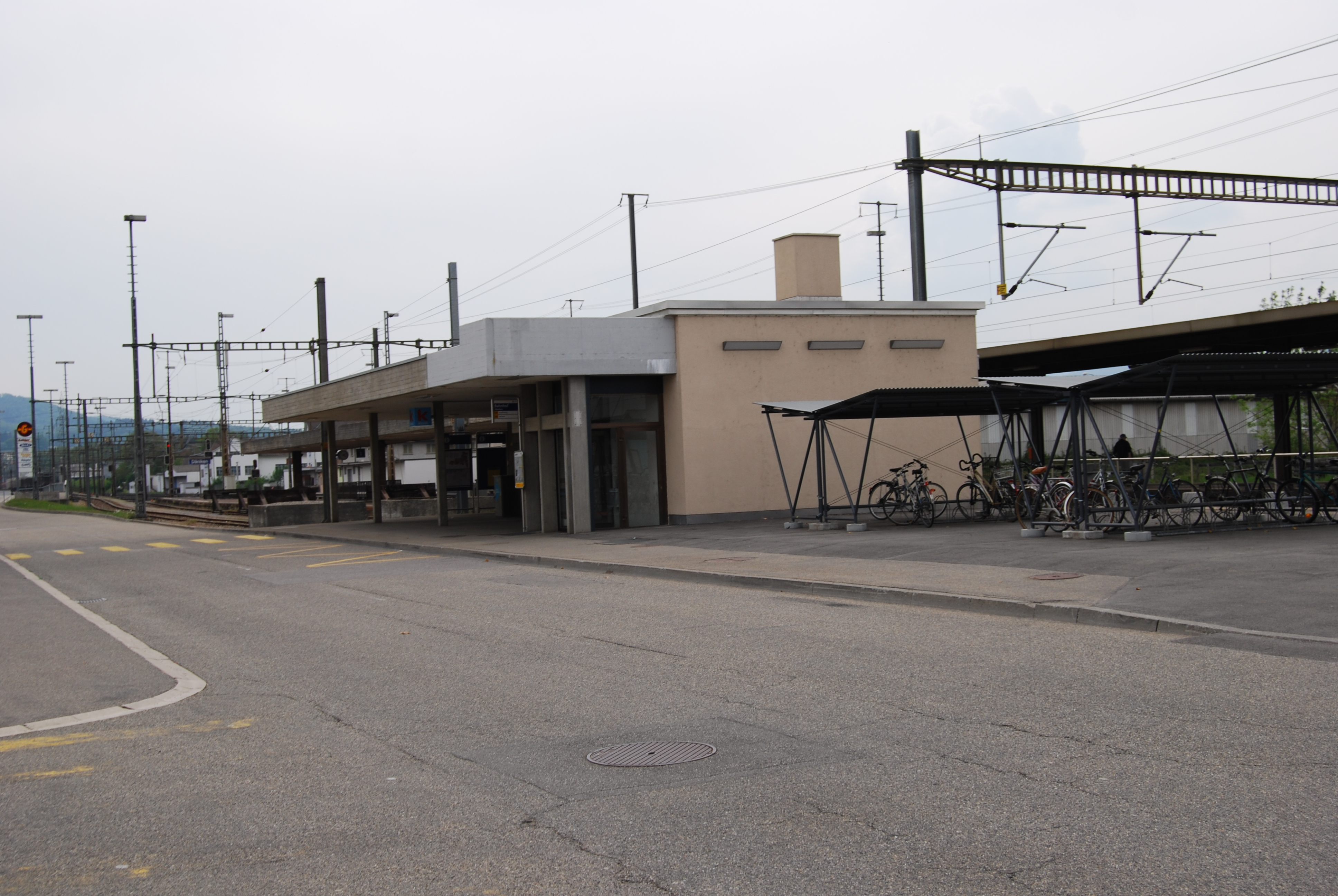 Däniken, canton of Solothurn, SwitzerlandEsperanto: Däniken, Kantono Soloturno, Svislando